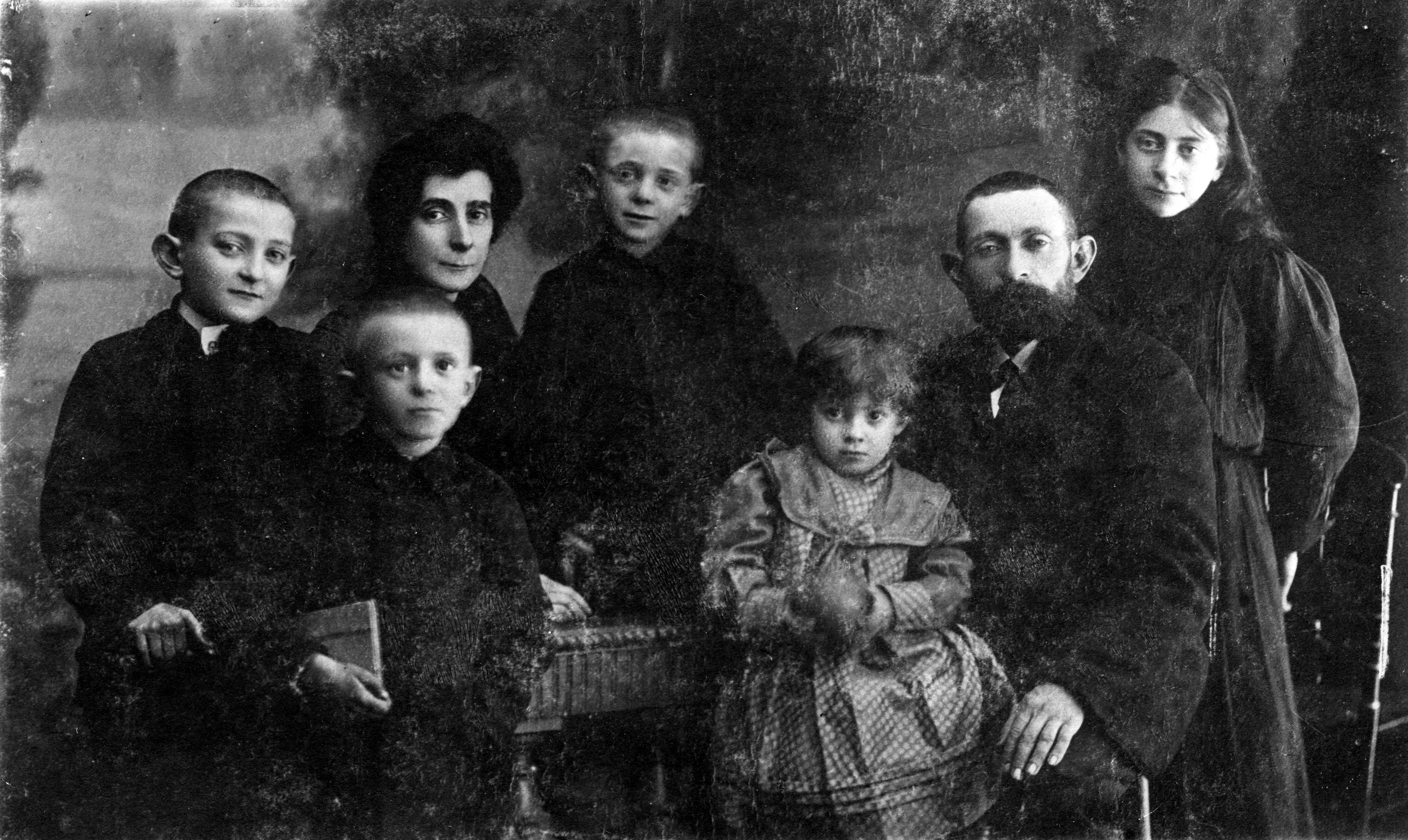 Brecher family